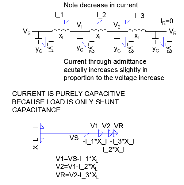 Shows the additional voltage buildup along a transmission line due to line capacitance.